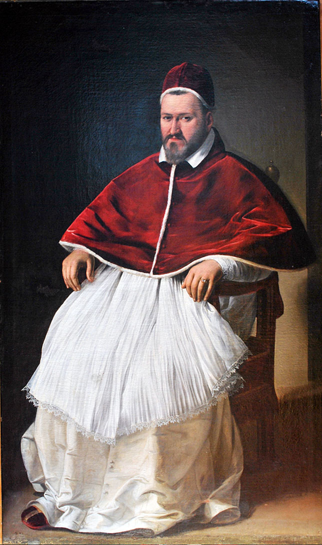 Portrait of Paulus V (Camillo Borghese)